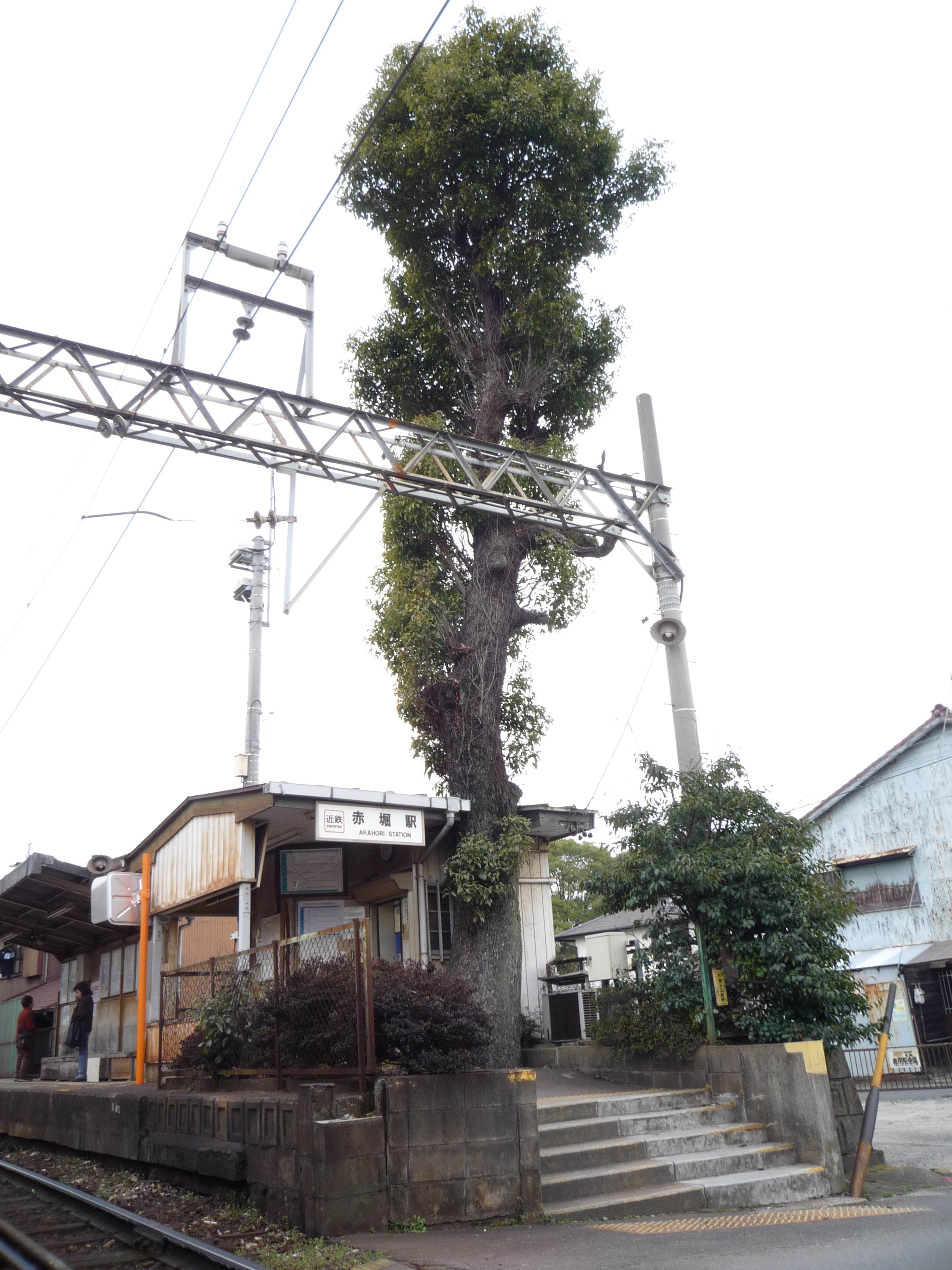 Akahori Station